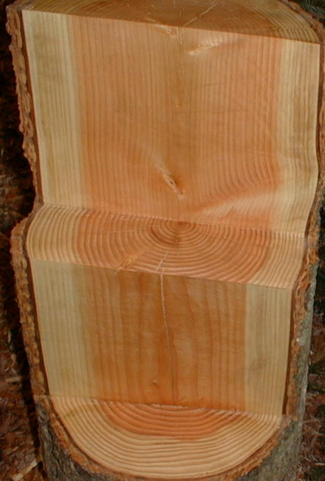 closer and straighter version of Image:Douglasie.jpg